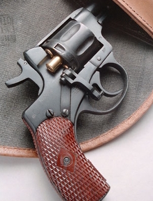 Holstered Nagant with the Abadie gate open for loading. (Photo by Oleg Volk)